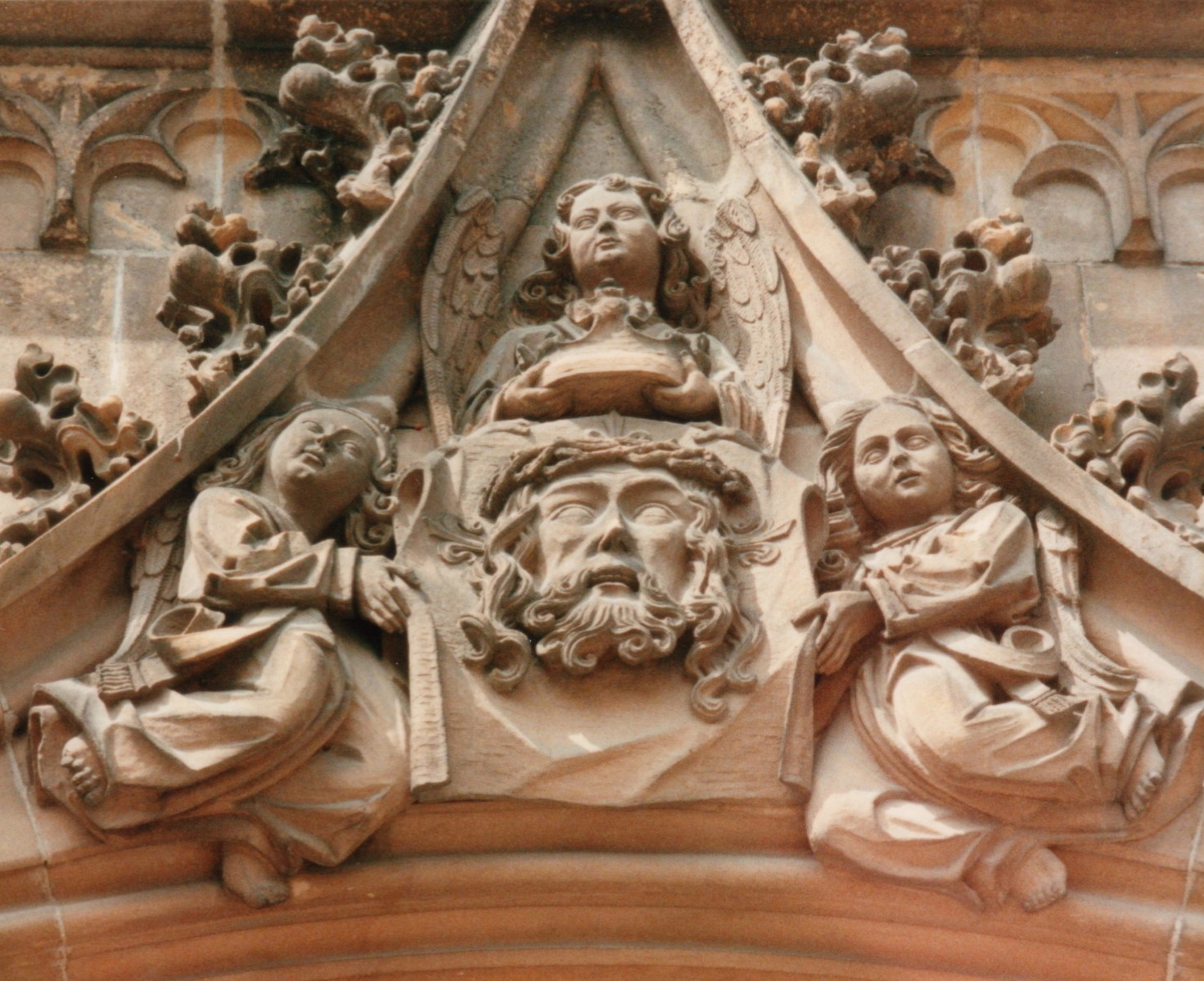 Depiction of the Veil of Veronica over the portal of the Gothic-era Münster Heiliges Kreuz in Rottweil, Germany.